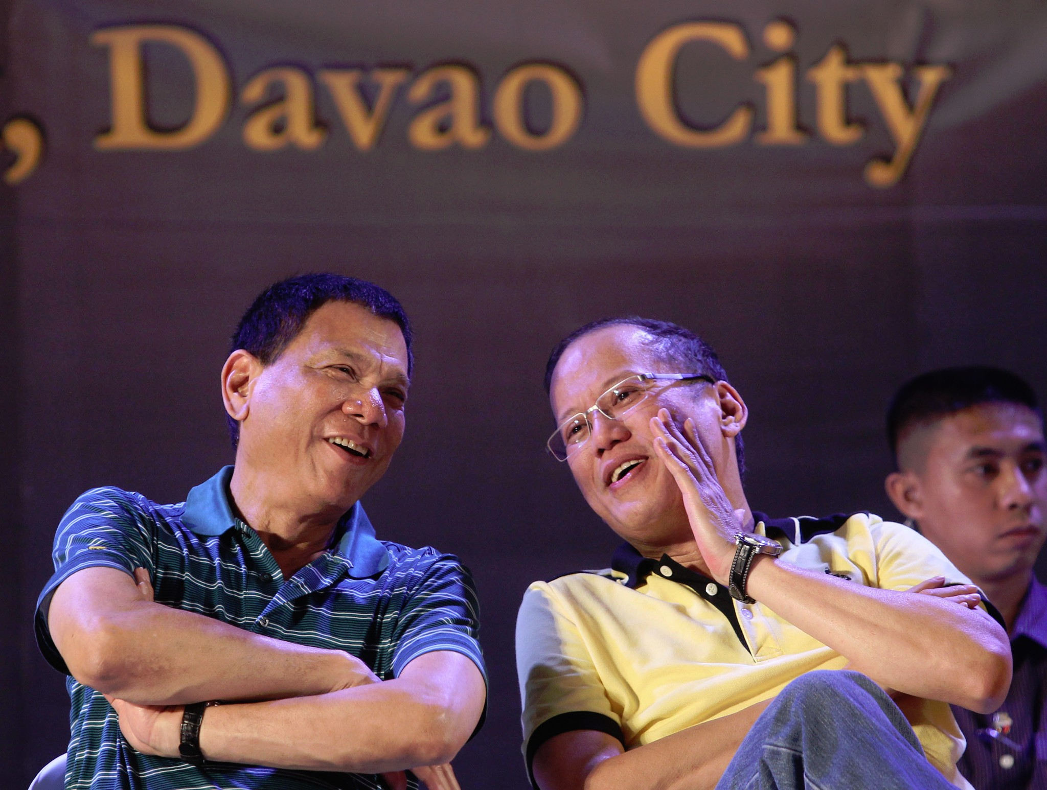 President Benigno S. Aquino III converses with Davao City Vice Mayor Rodrigo Duterte during the Meeting with Local Leaders and the Community at the Rizal Park in San Pedro Street, Davao City on Wednesday (March 06, 2013).